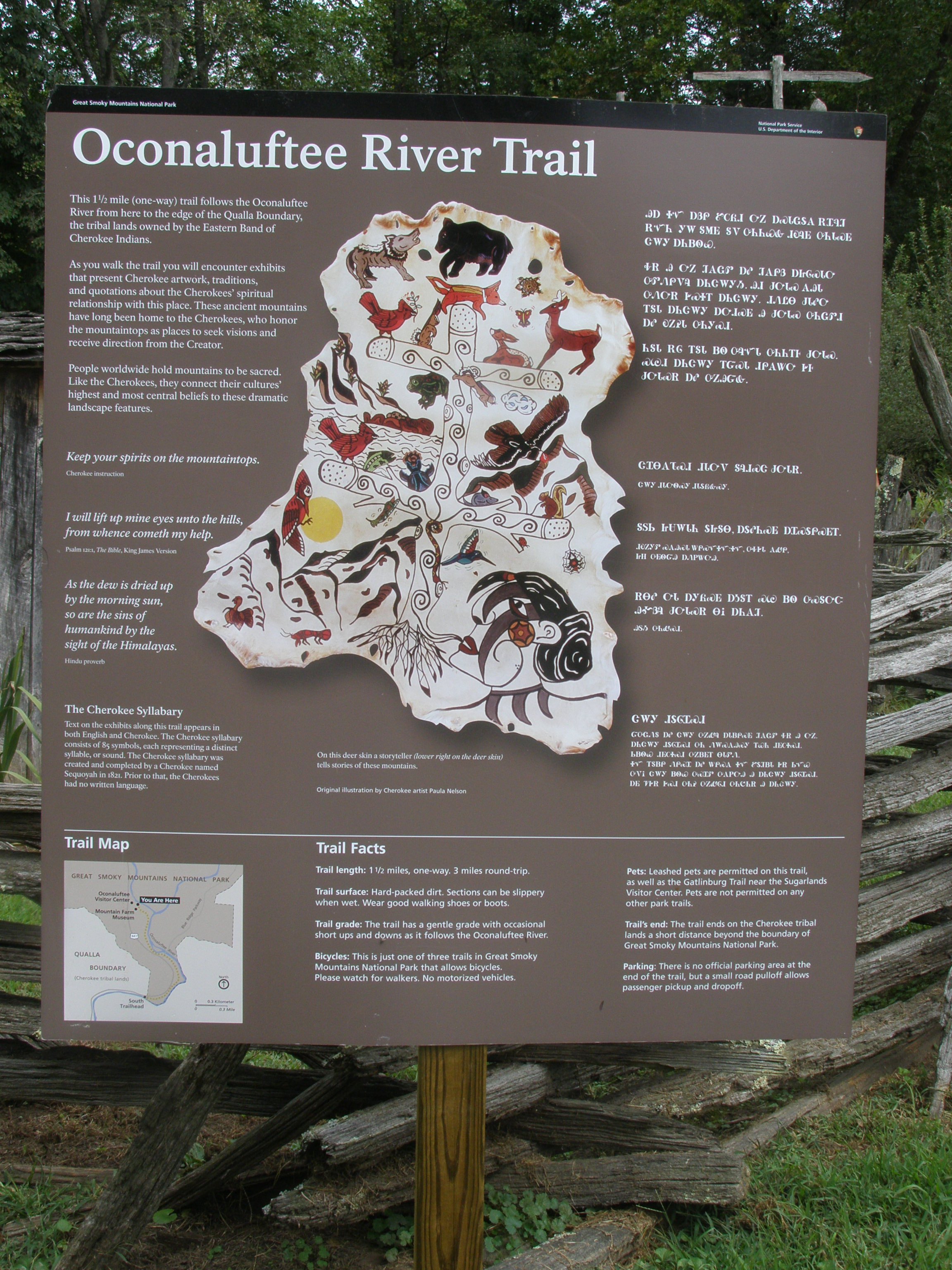 Oconaluftee River Trail at Oconaluftee Mountain Farm Museum, Great Smoky Mountains National Park, North Carolina.